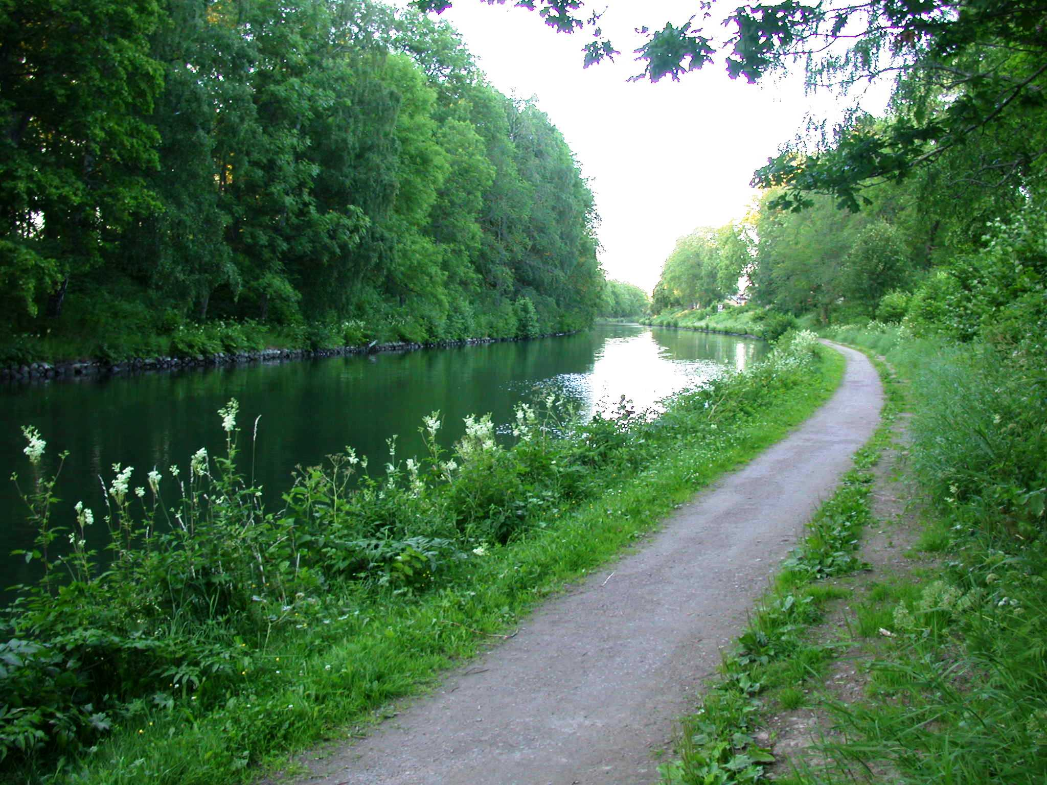 Göta kanal (Göta channel) Motala, Sweden. Photo by (WT-shared) Riggwelter, July 13, 2006. Was in category Motala on wikivoyage